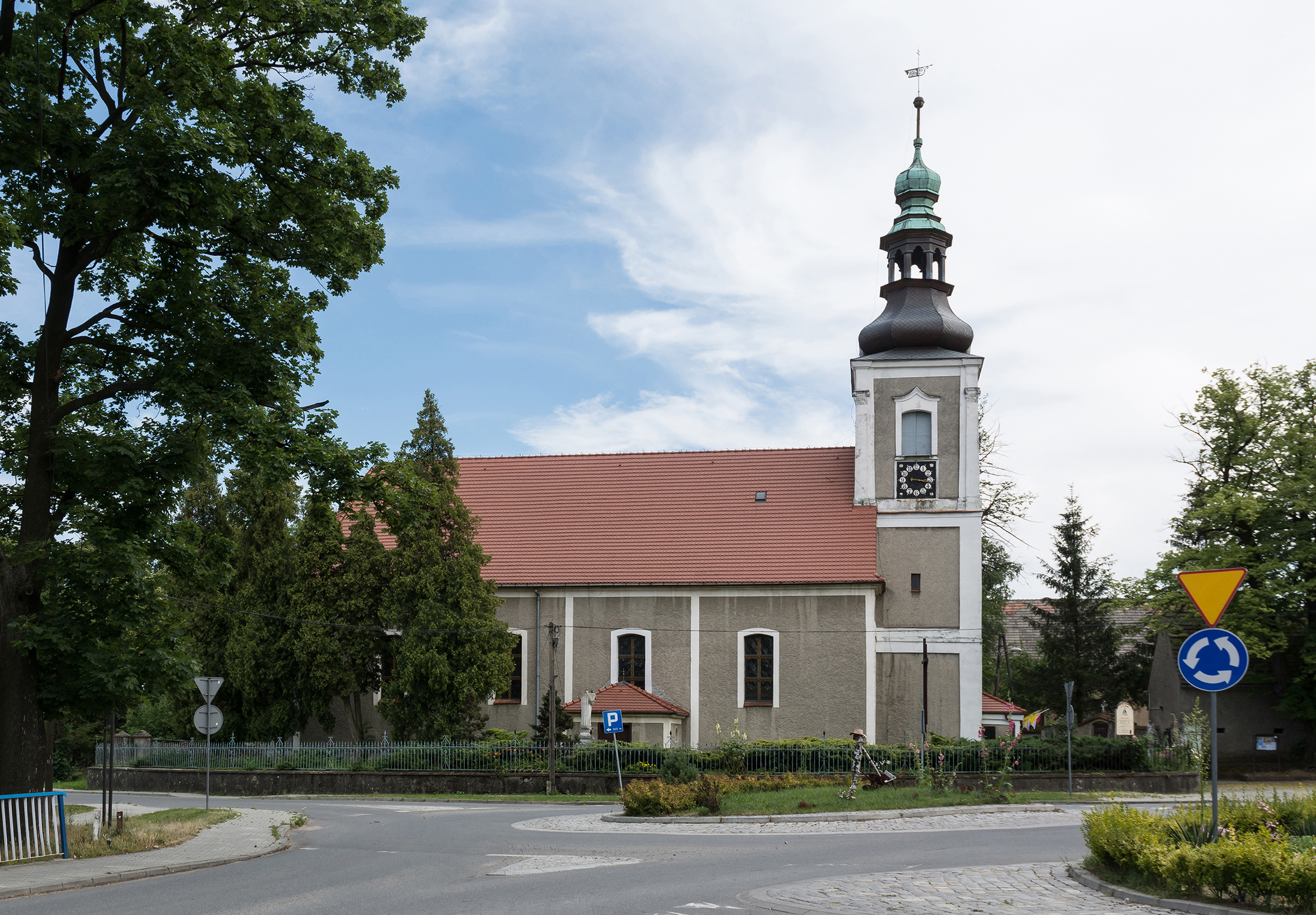 Saint Nicholas church in Brzeźnica